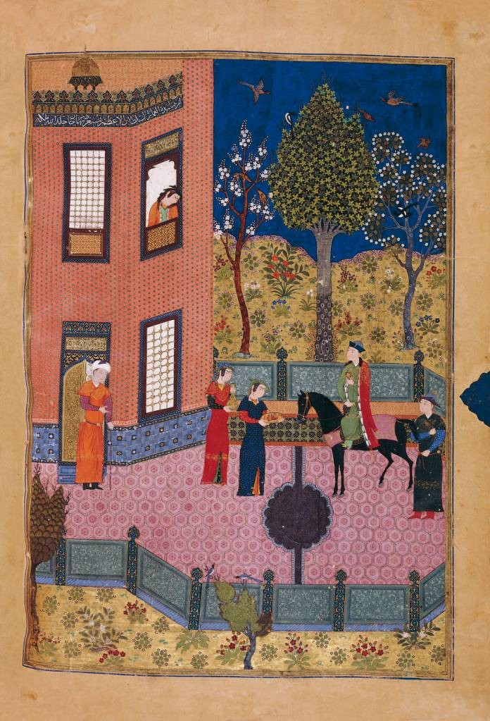 The meeting of Ardeshir with Golnar, Ardavan's slave-girl and treasurer. From the “Bayasanghori Shâhnâmeh” — made in 1430 for Prince Bayasanghor (1399-1433), the grandson of the legendary Central Asian leader Timur (1336-1405).